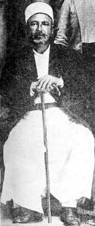 Sheikh Saleh al-Ali, commander of the revolt of 1919 in the Syrian coast.